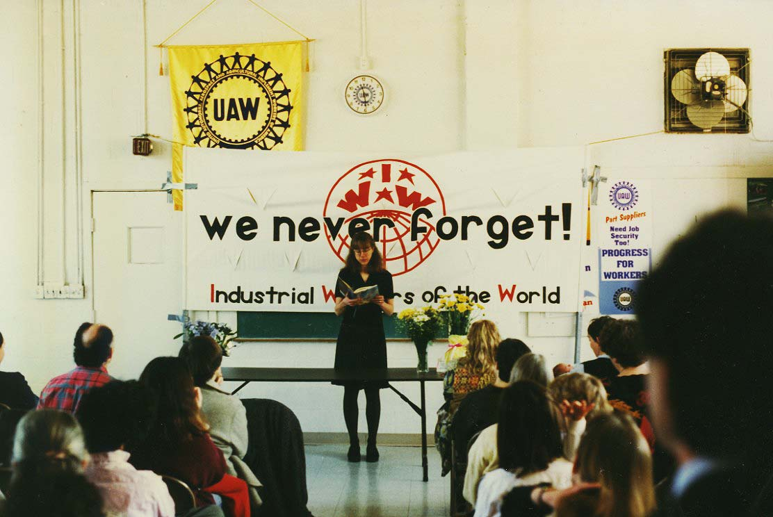 IWW memorial service for Michael Kazura